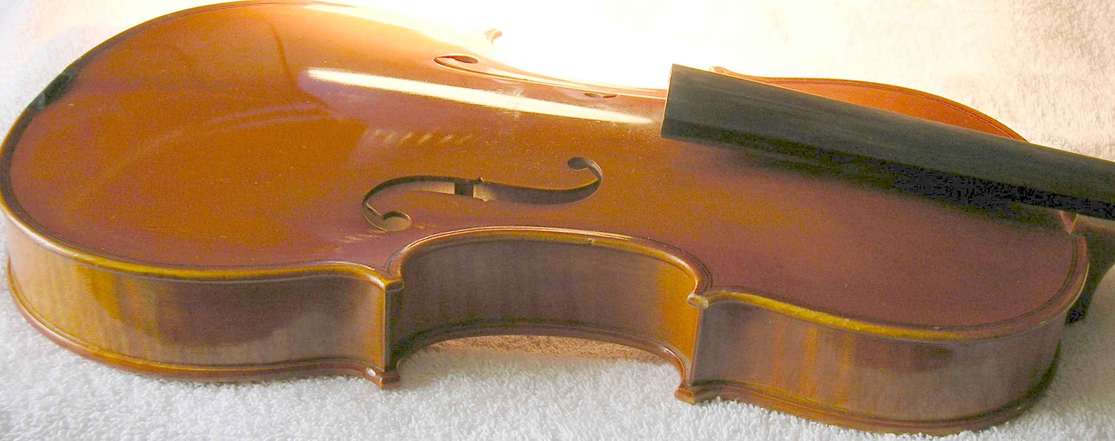 VL100 made ca. 2002 taken down, showing soundpost through treble f-hole. Note reflection of anglepoise lamp. Image gamma was manipulated post-exposure, as well as upper right corner touched to eliminate distracting background edge.